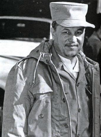 Hashemi Rafsanjani in Military dress